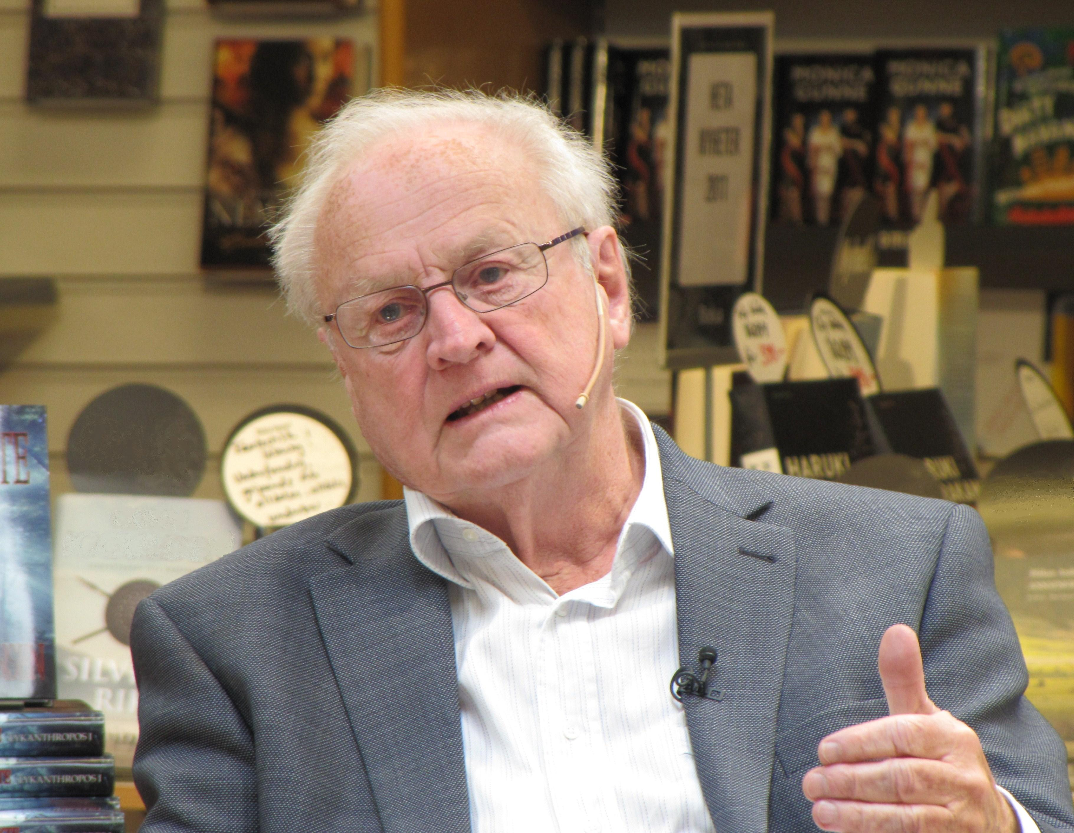 Swedish pharmacologist and Nobel laureate Arvid Carlsson giving a lecture at the 2011 Göteborg Science Festival.